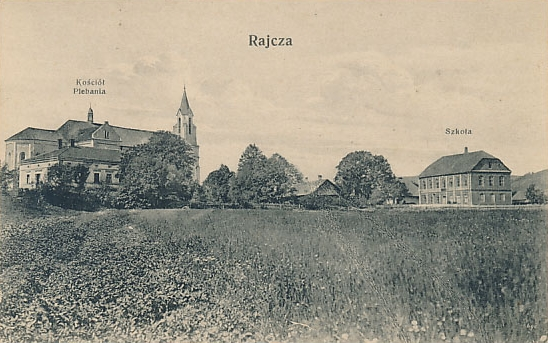 postcard of Rajcza, depicting church with rectory and school